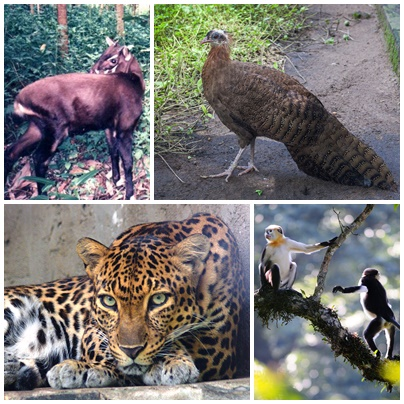 A composite image of Vietnamese wildlife from these images. Upload by Silviculture Upload by Poco a poco Upload by FierceJake754 Upload by Miguelrangeljr(By Quyet Le on Flickr)